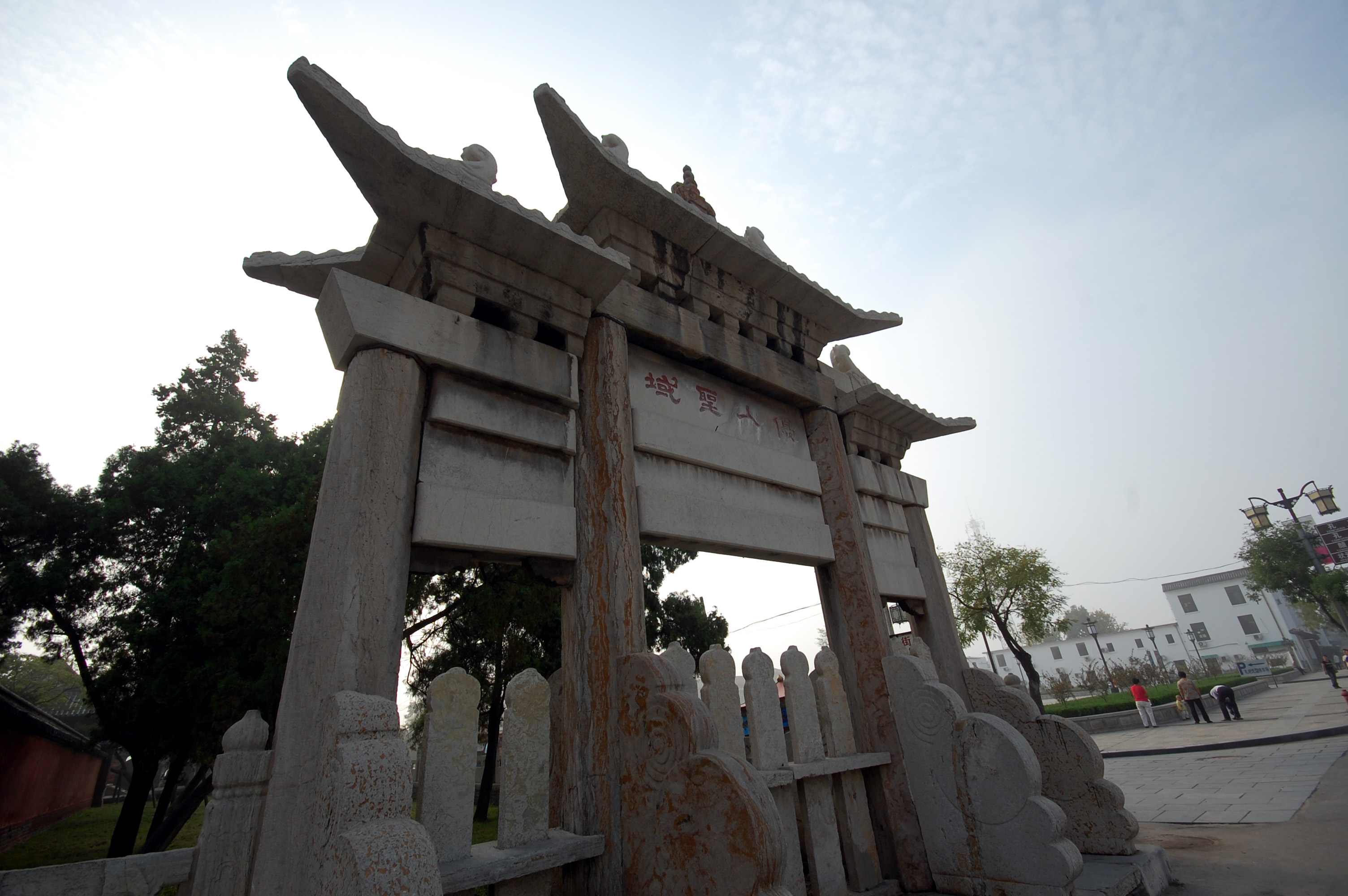 Temple of Yanhui, Qufu, Shandong